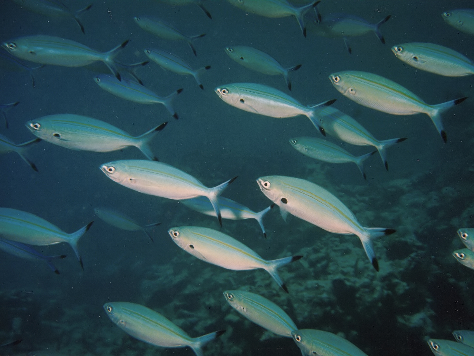 Variable-lined fusilier off Trou aux Biches, Mauritius.